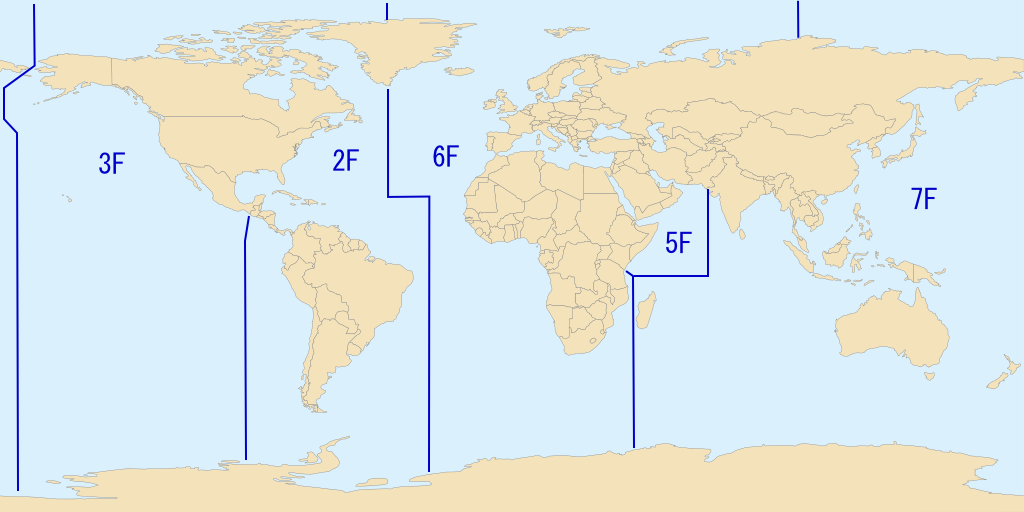 US navy fleets ares of responsibility